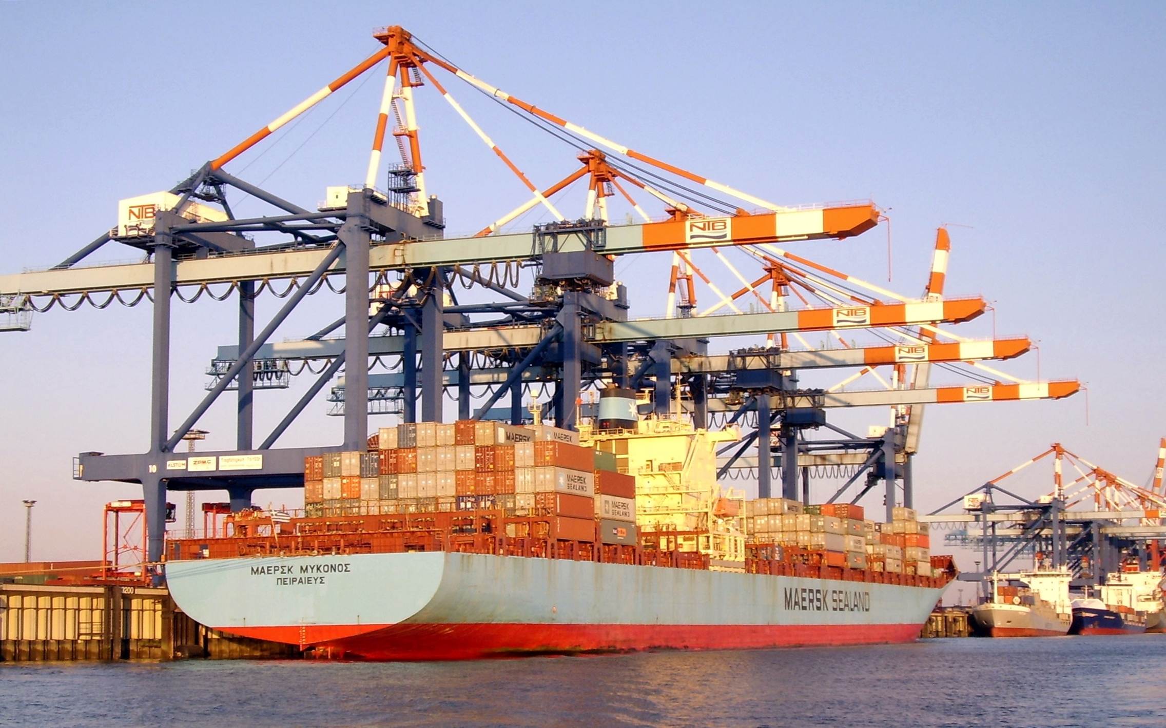 Maersk Mykonos in Bremerhaven IMO Number: 8613308 MMSI Number: 240266000 Callsign: SXSQ Length: 294 m Beam: 32 m Date: July 17th 2006 Photographer: Doclecter